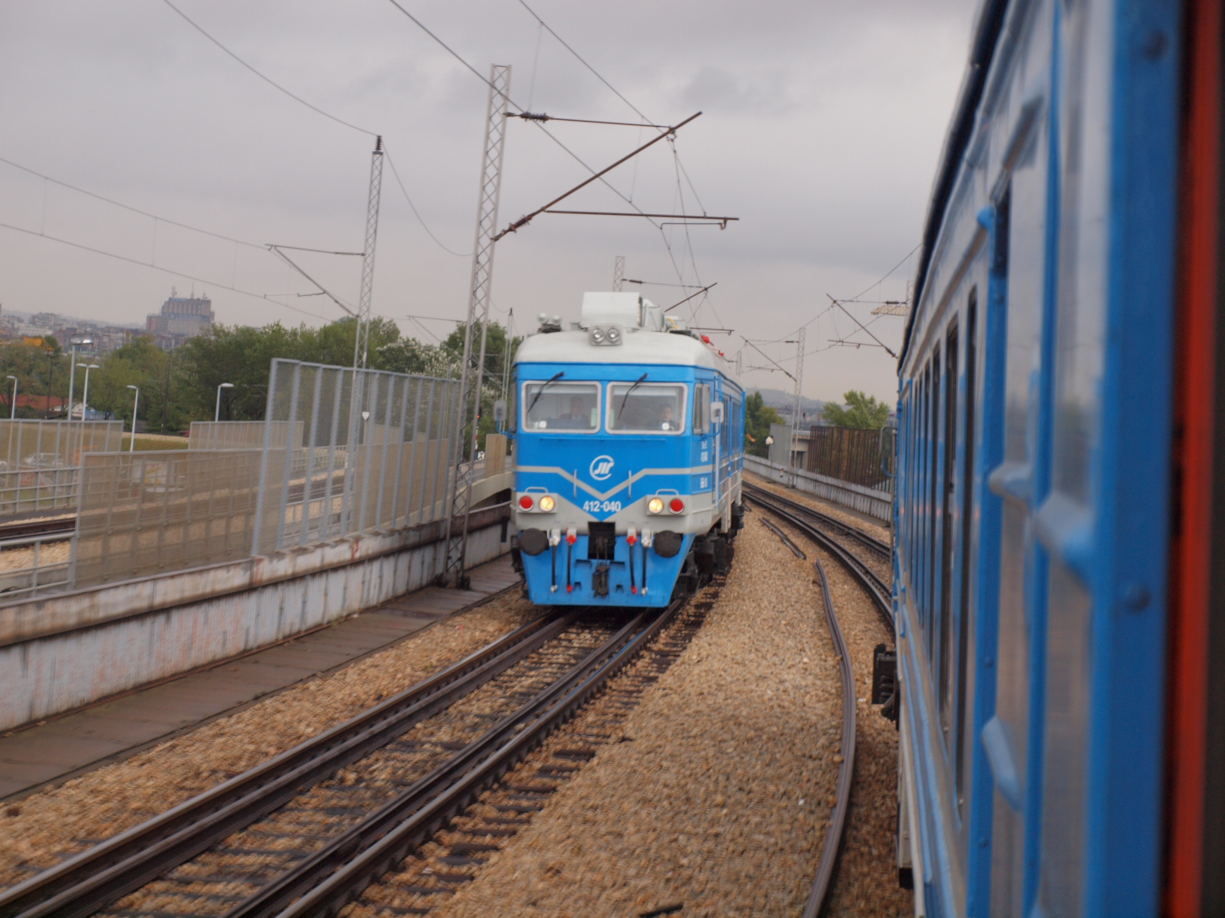 voz